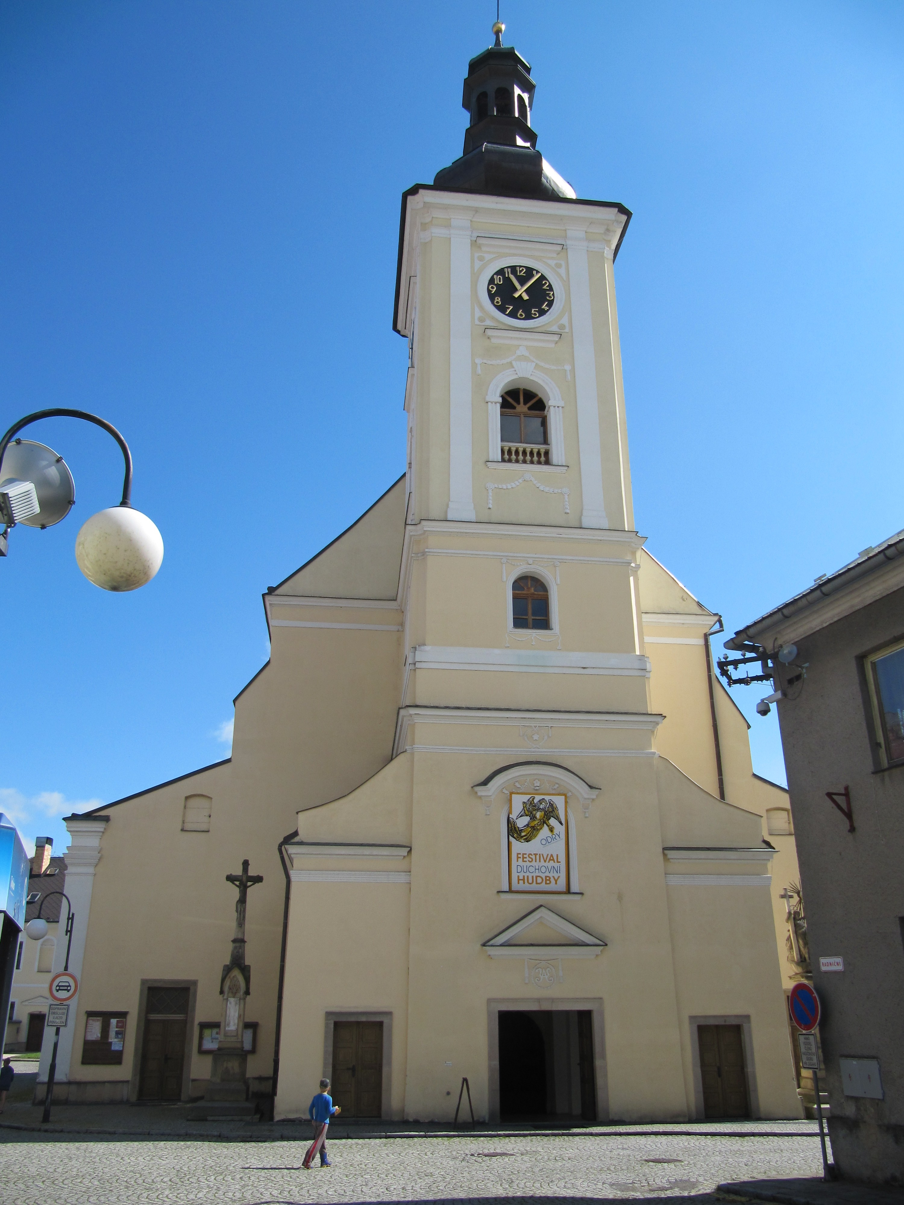 Odry in Nový Jičín District, Czech Republic. Church of St. Bartholomew from 1373, originally Gothic, rebuilt in Baroque style between 1691-1692.